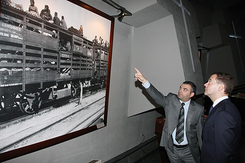 YEREVAN, ARMENIA. In the Armenian Genocide Museum.